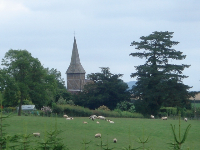 Wolferlow Church Viewed from the small christmas tree plantation near Upper House Farm.